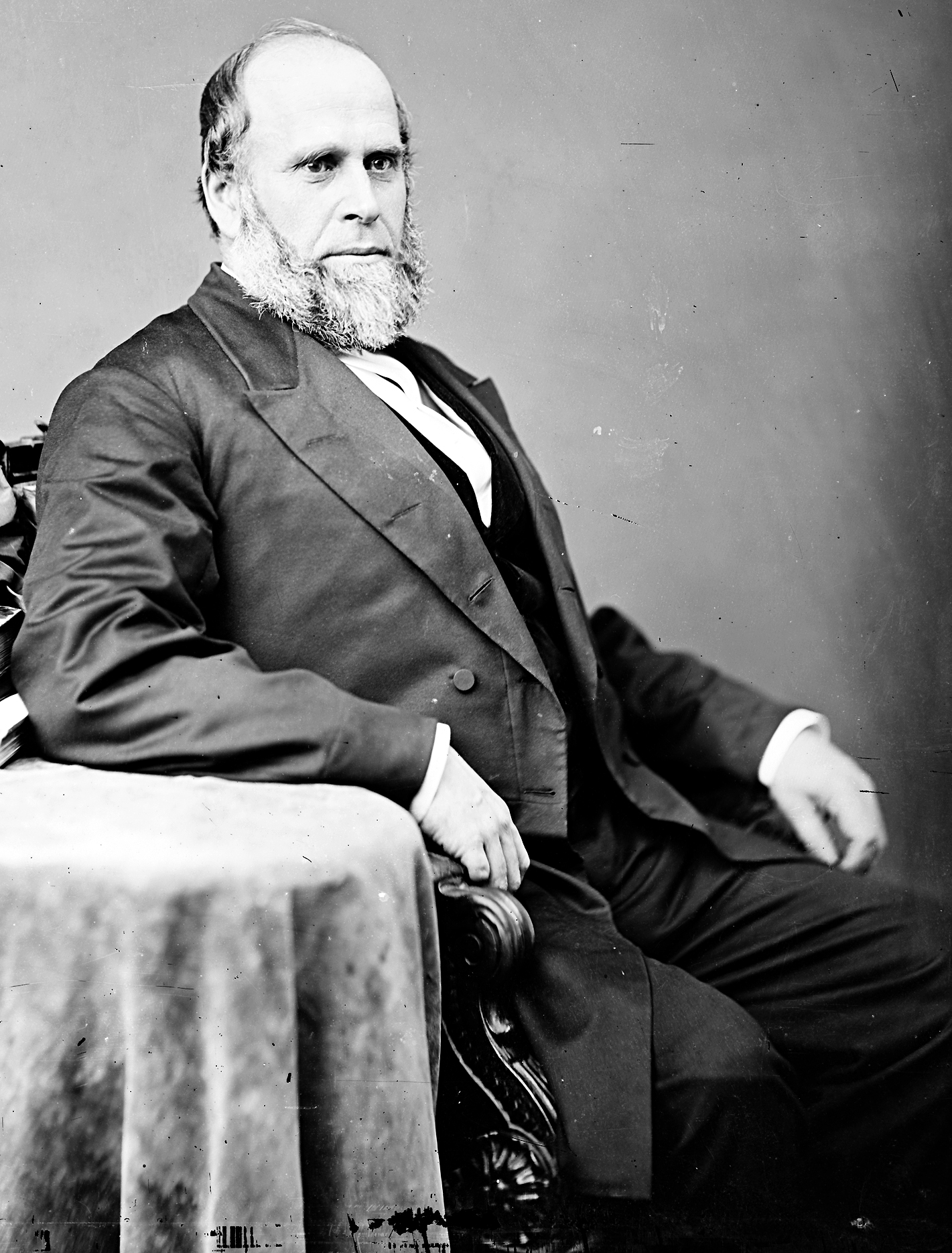 Randolph Strickland, US Representative from Michigan